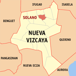 Map of Nueva Vizcaya showing the location of Solano